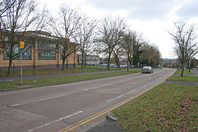 Downing Drive, Evington, Leicester. One of five schools in the immediate area, The City of Leicester School is a large comprehensive.